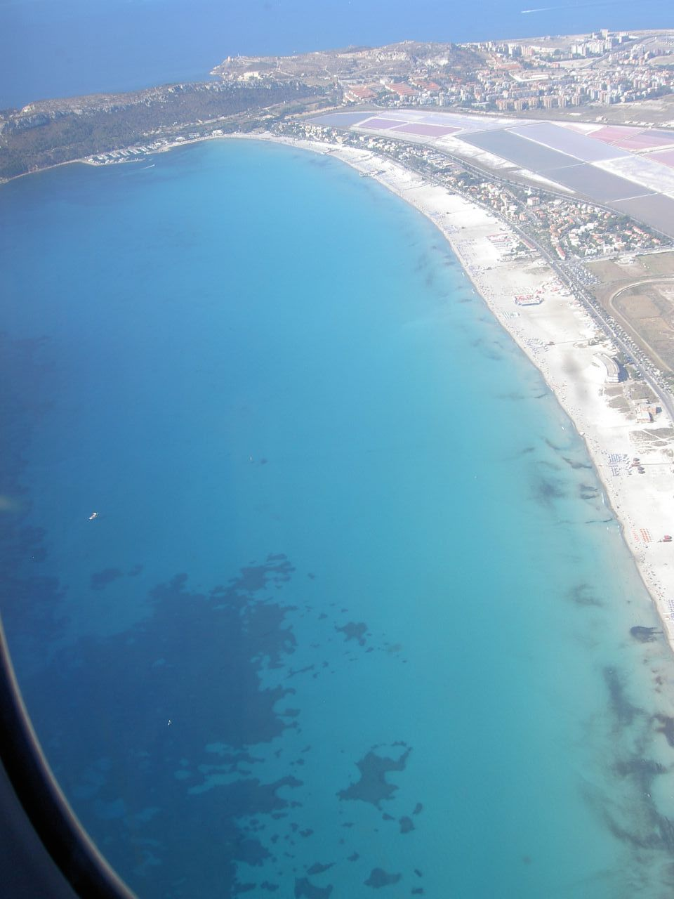 Poetto beach between Cagliari and Quartu Sant'Elena - Sardinia , Italy